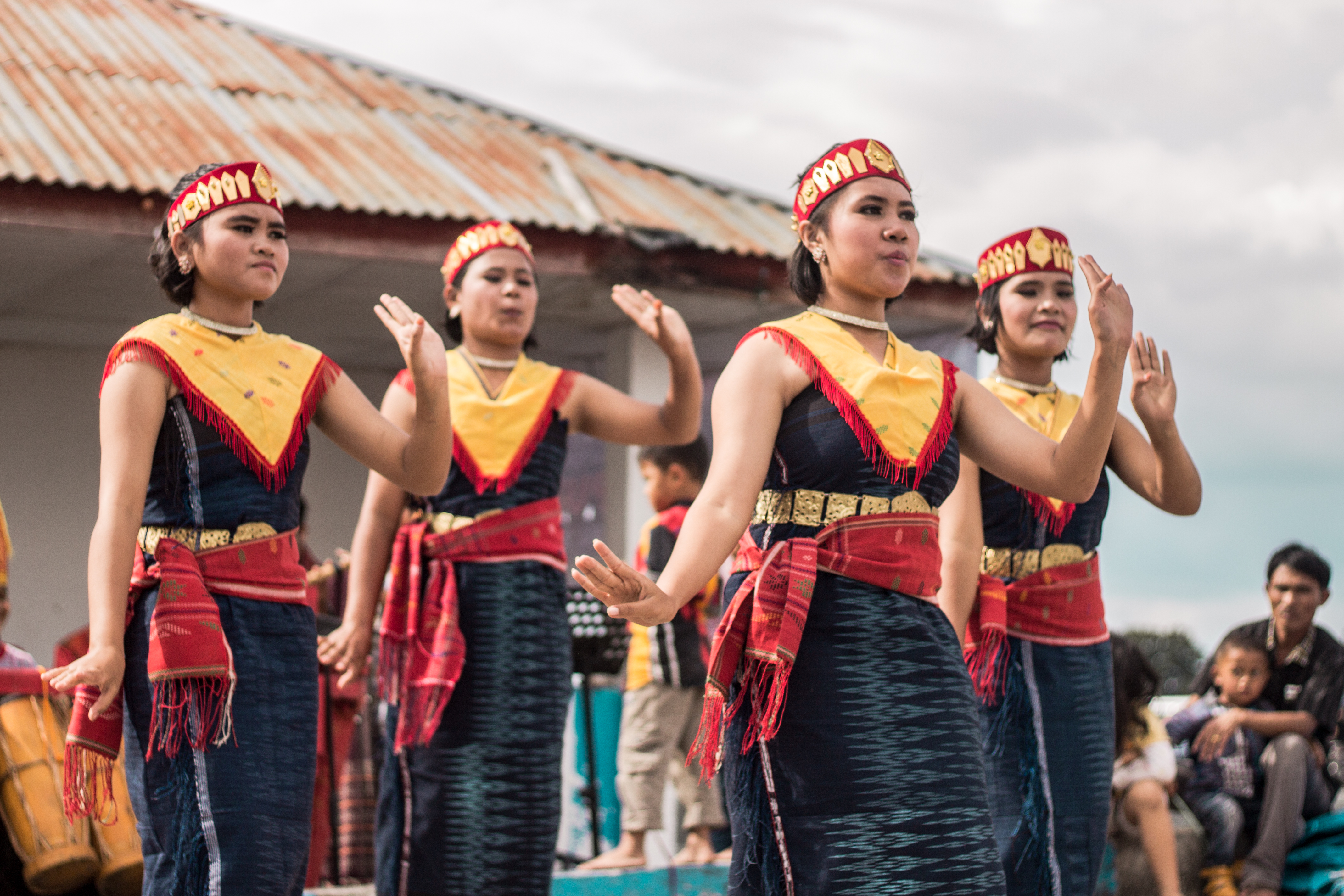 Tor-tor dance is a regional dance from Batak tribe, Indonesia.